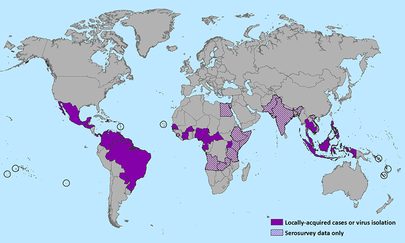 Centers for Disease Control and Prevention map of the geographic distribution of Zika virus as of 15 January 2015